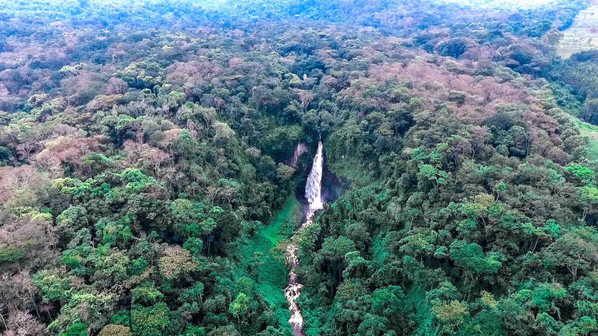 Waterfall in Kahuzi-Biega National Park, Democratic Republic of the Congo. (Forest Service photo by Roni Ziade)